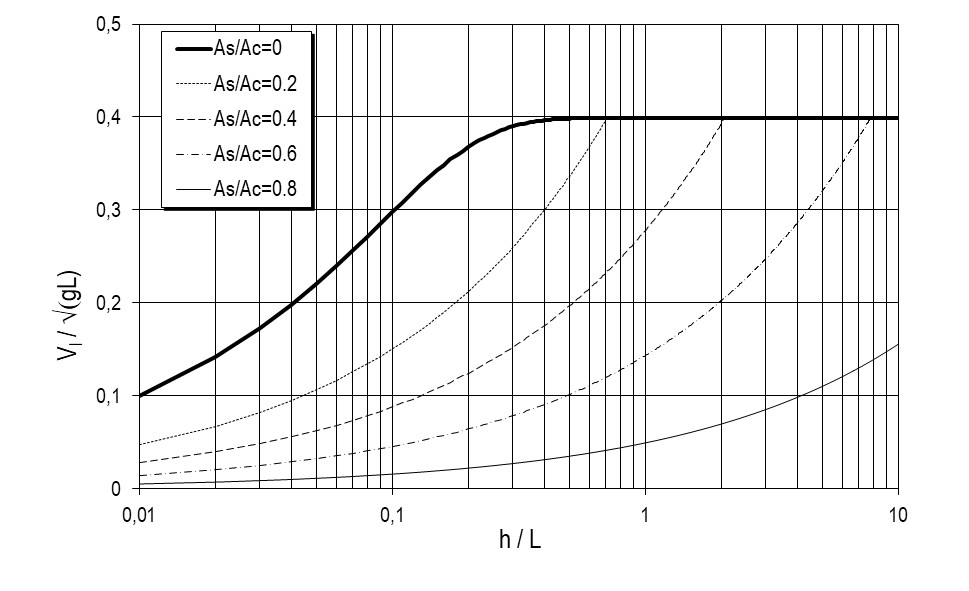 Hullspeed in shallow water according to Schijf